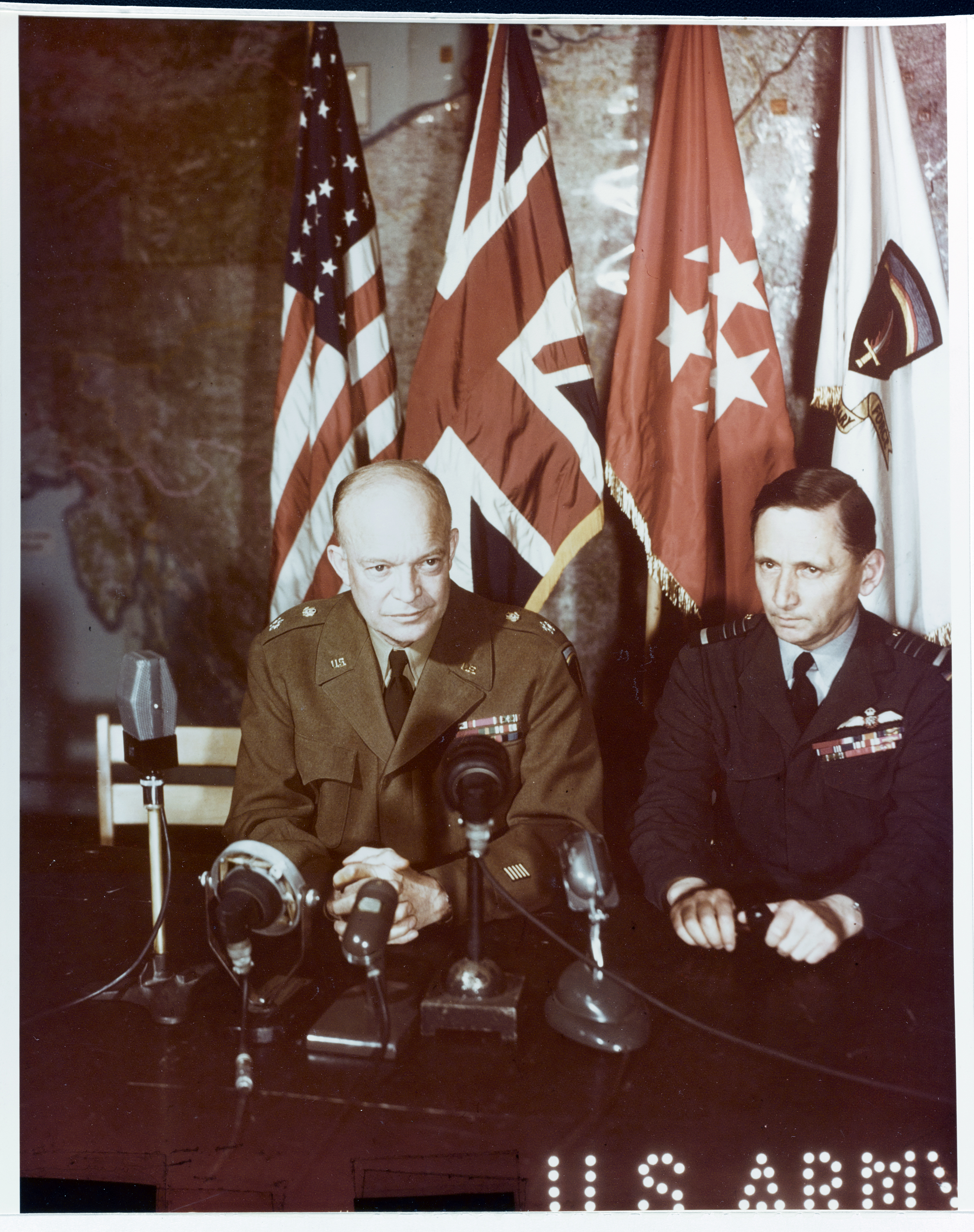 Photograph from the Army Signal Corps Collection in the U.S. National Archives (Photo #: USA C-2342 (Color)). Surrender of Germany, May 1945 General of the Army Dwight D. Eisenhower, U.S. Army (left); and Air Chief Marshal Sir Arthur Tedder, Royal Air Force, address the World via motion picture and sound recordings, shortly after the German mission had signed the instrument of unconditional surrender, at Rheims, France, 7 May 1945. Note the United States, British, U.S. General of the Army and SHAEF (Supreme Headquarters Allied Expeditionary Force) flags behind them.